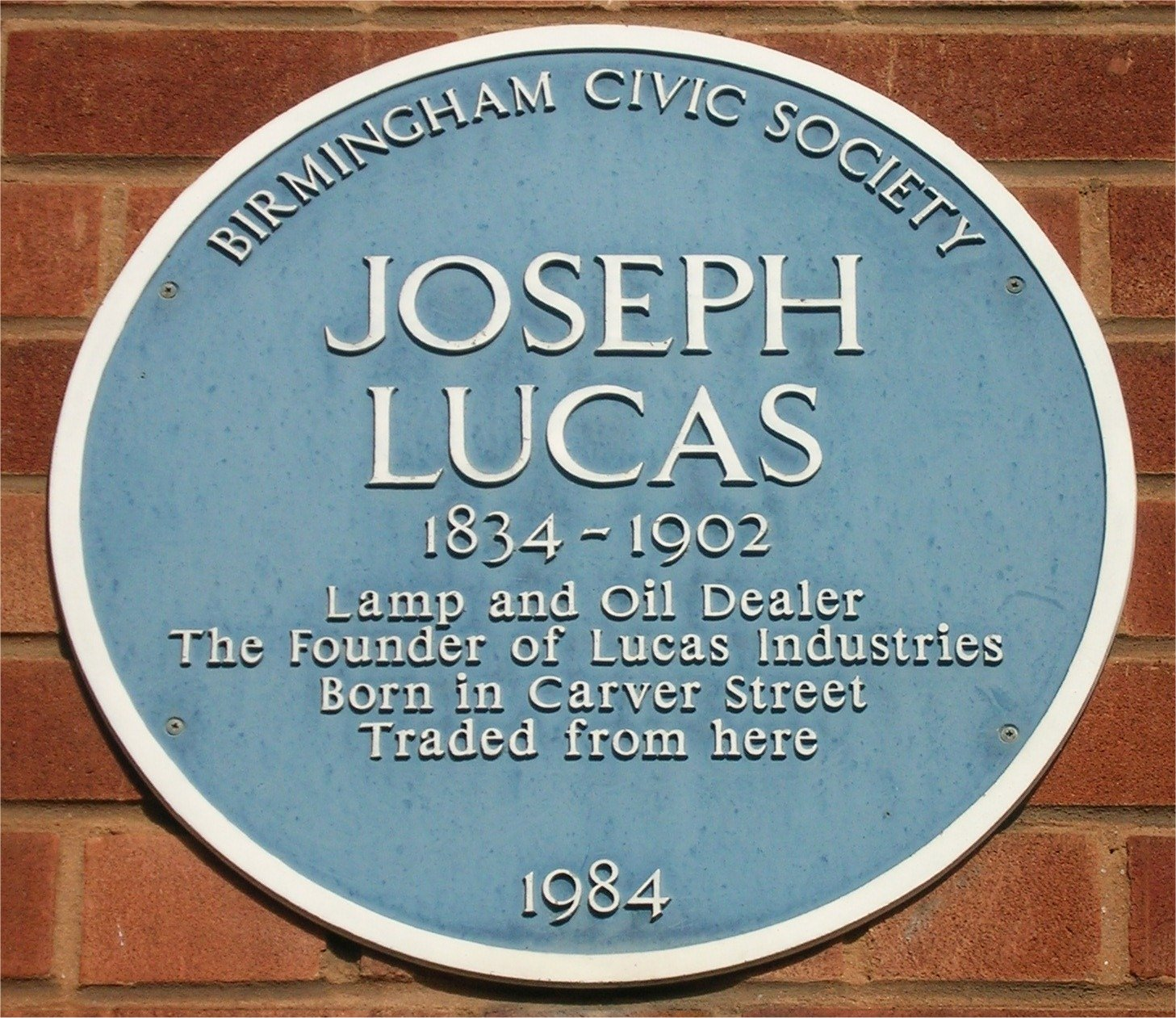 Blue plaque to Joseph Lucas (1834–1902), British industrialist, founder of Lucas Industries plc, in Carver Street, Hockley, Birmingham, England. Photographed by me 6 April 2007. Oosoom